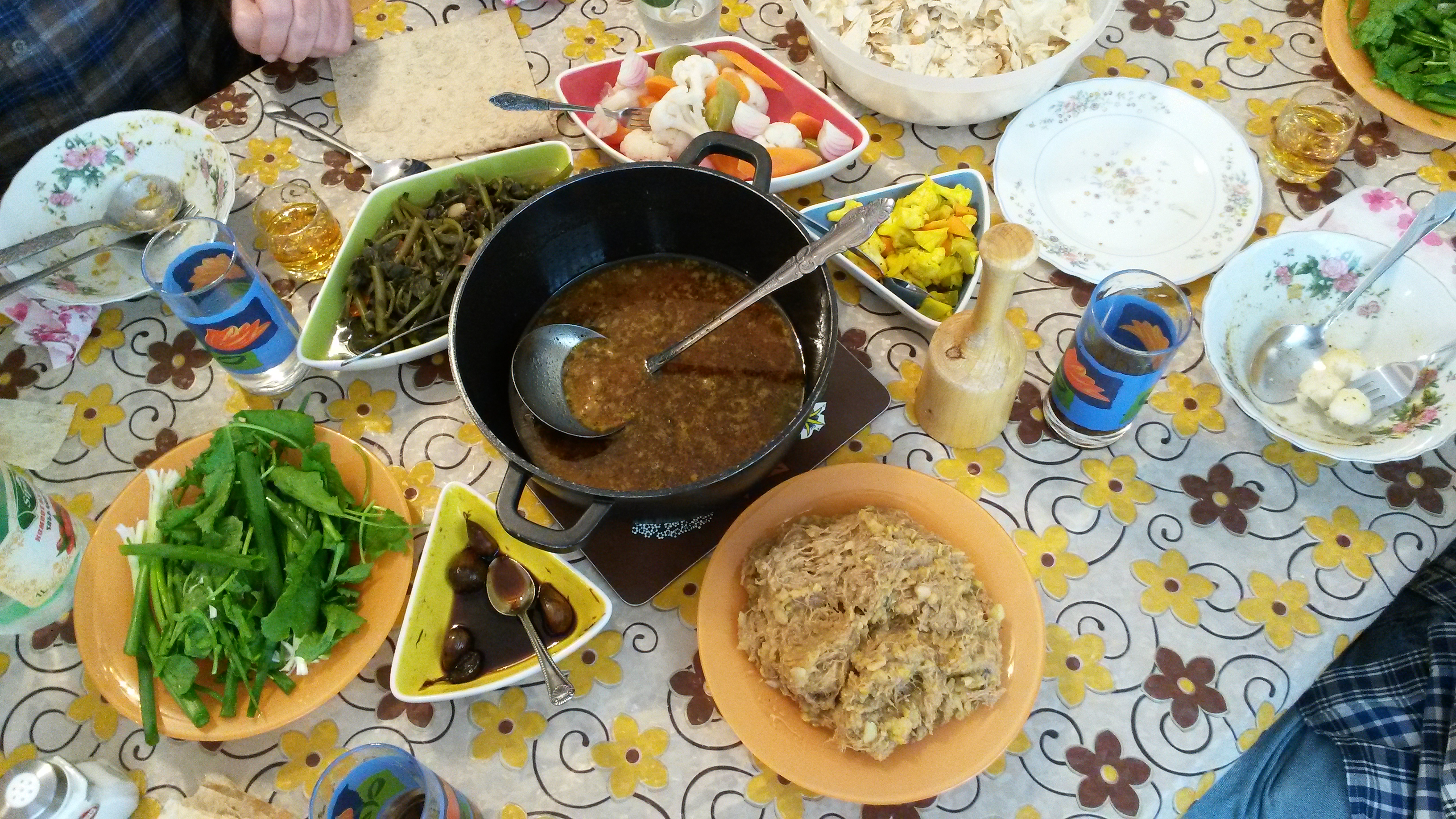 abgusht or dizi